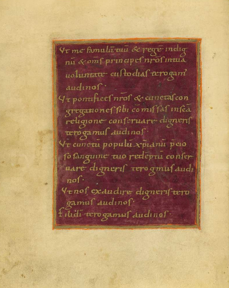 Gebetsbuch Otto III., fol. 18v